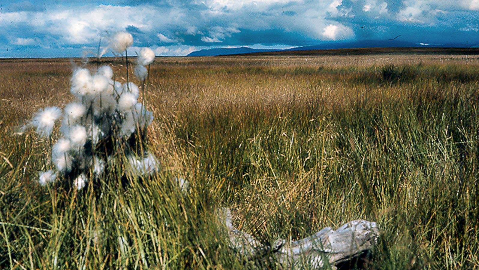 Near Hooper Bay Airport